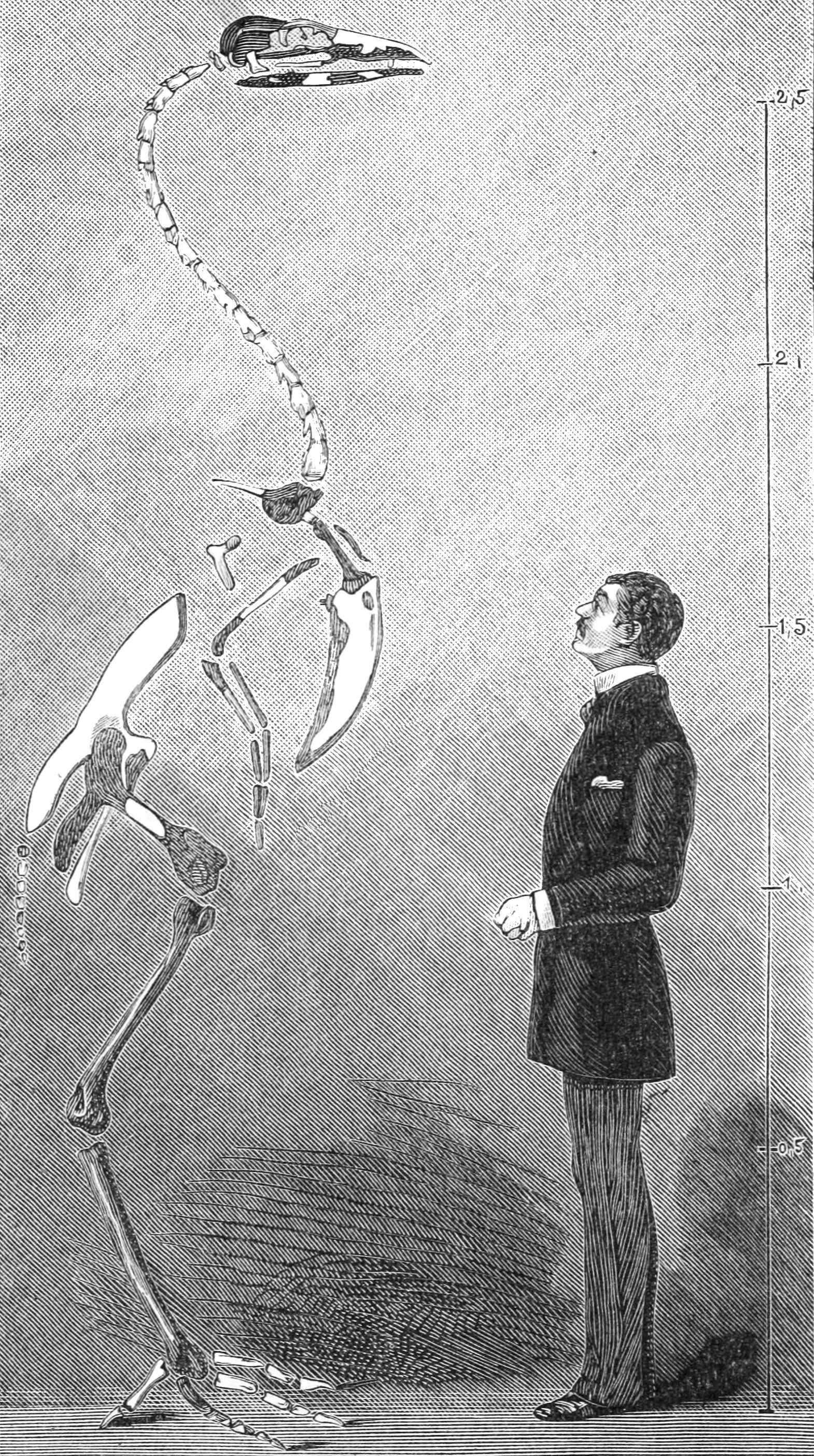 Skeleton of a Gastornis eduardsii